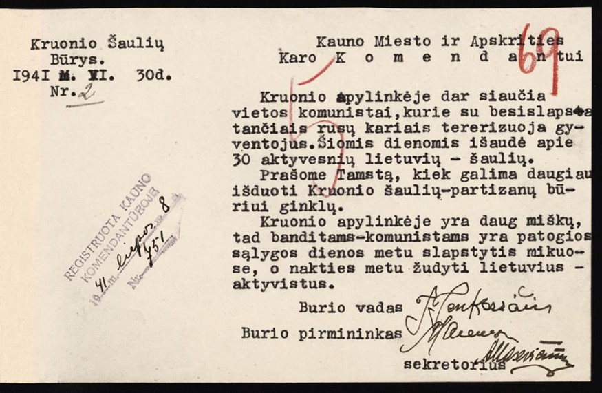 Lithuanian rebels in Kruonis requests for more weapons to fight the communists. They also wrote that the communists and Russian soldiers are terrorizing the locals and are attacking at night after hiding in forests during daytime (about 30 active members of the Lithuanian Riflemen's Union were already killed).